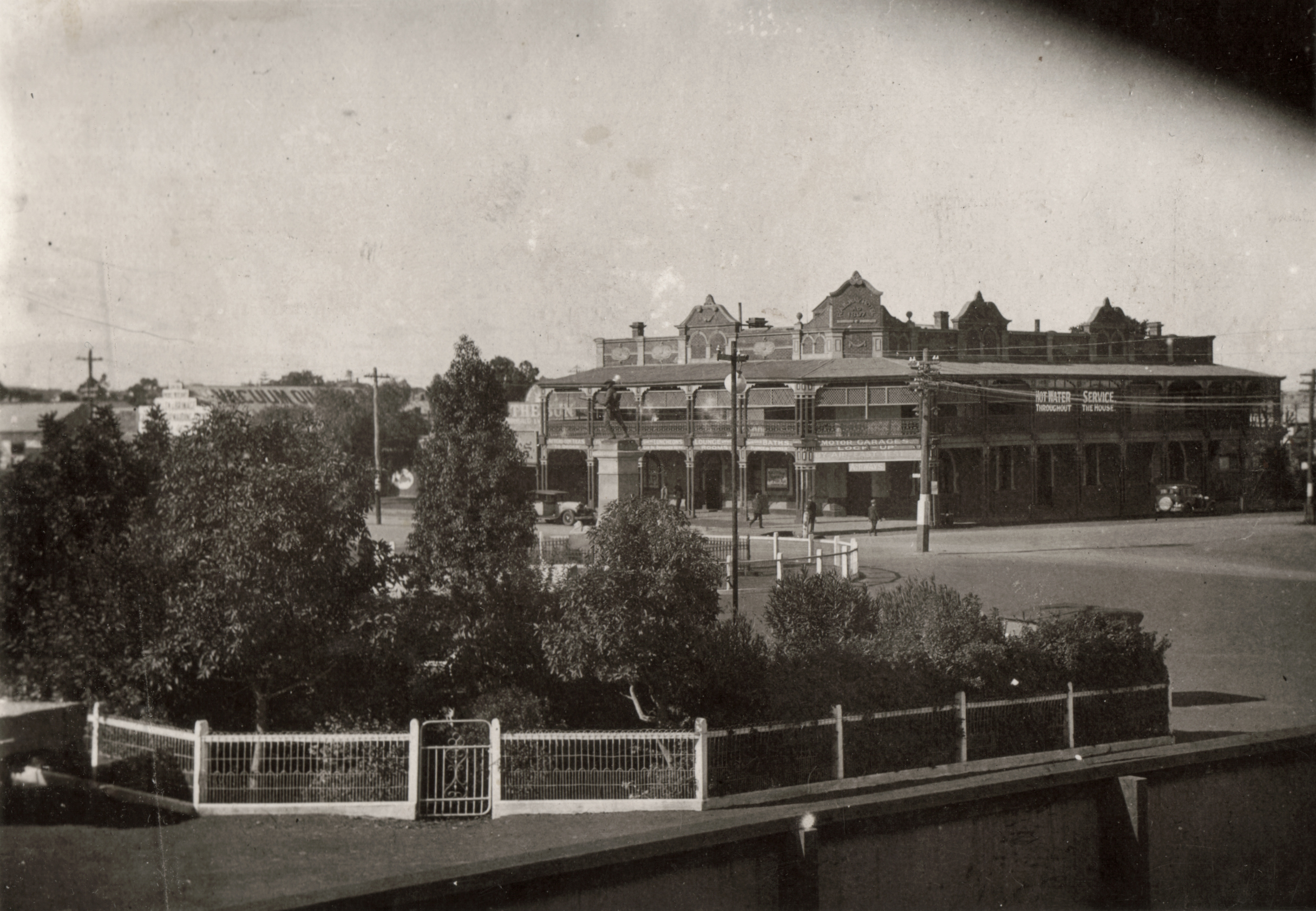 View from Railway Station, Kalgoorlie, Western Australia, 23 May 1931 (f11 1/50 50')